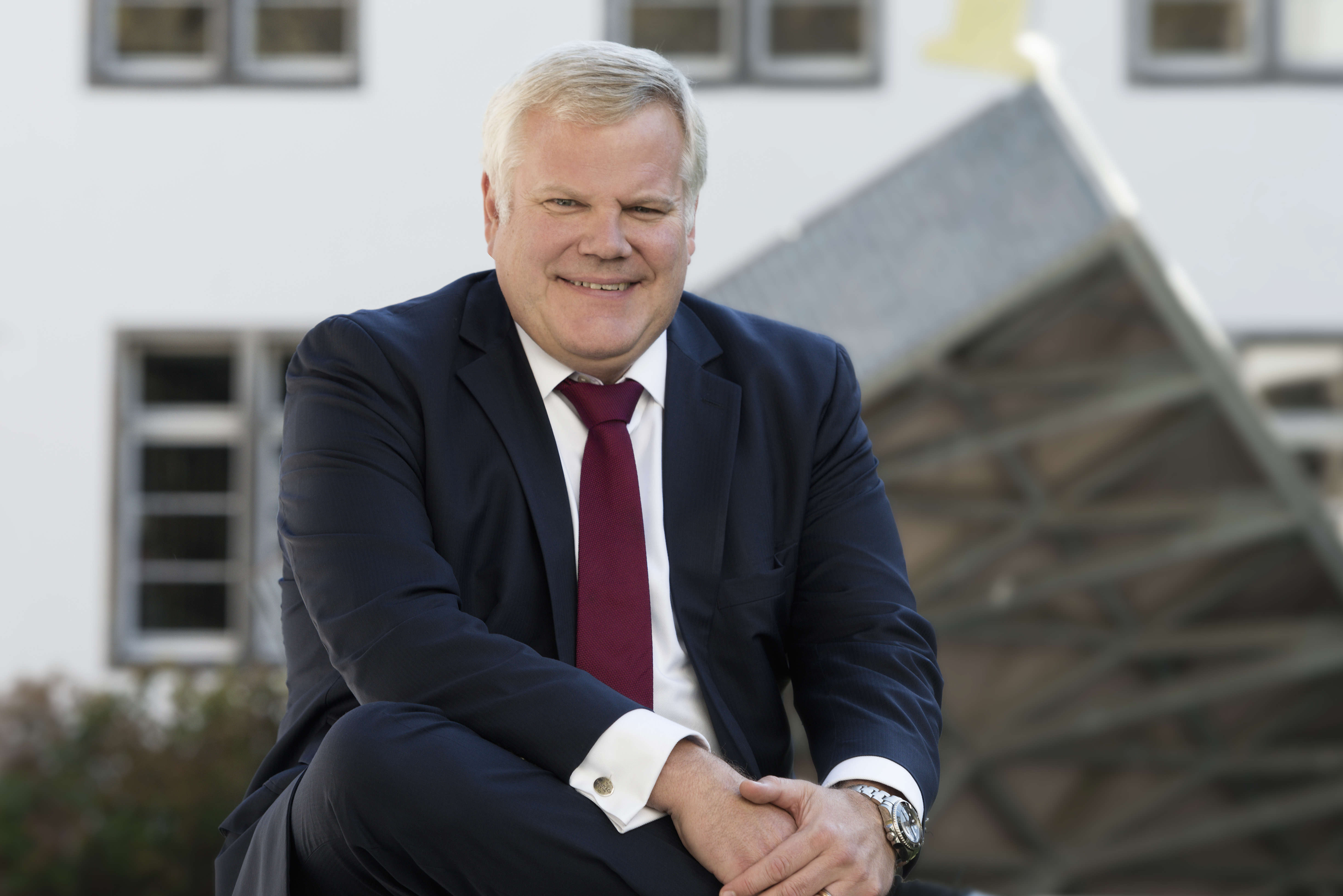 Forestry scientist and economist. Head of university administration and chief financial officer (Kanzler) at Heidelberg University since 1 September 2018